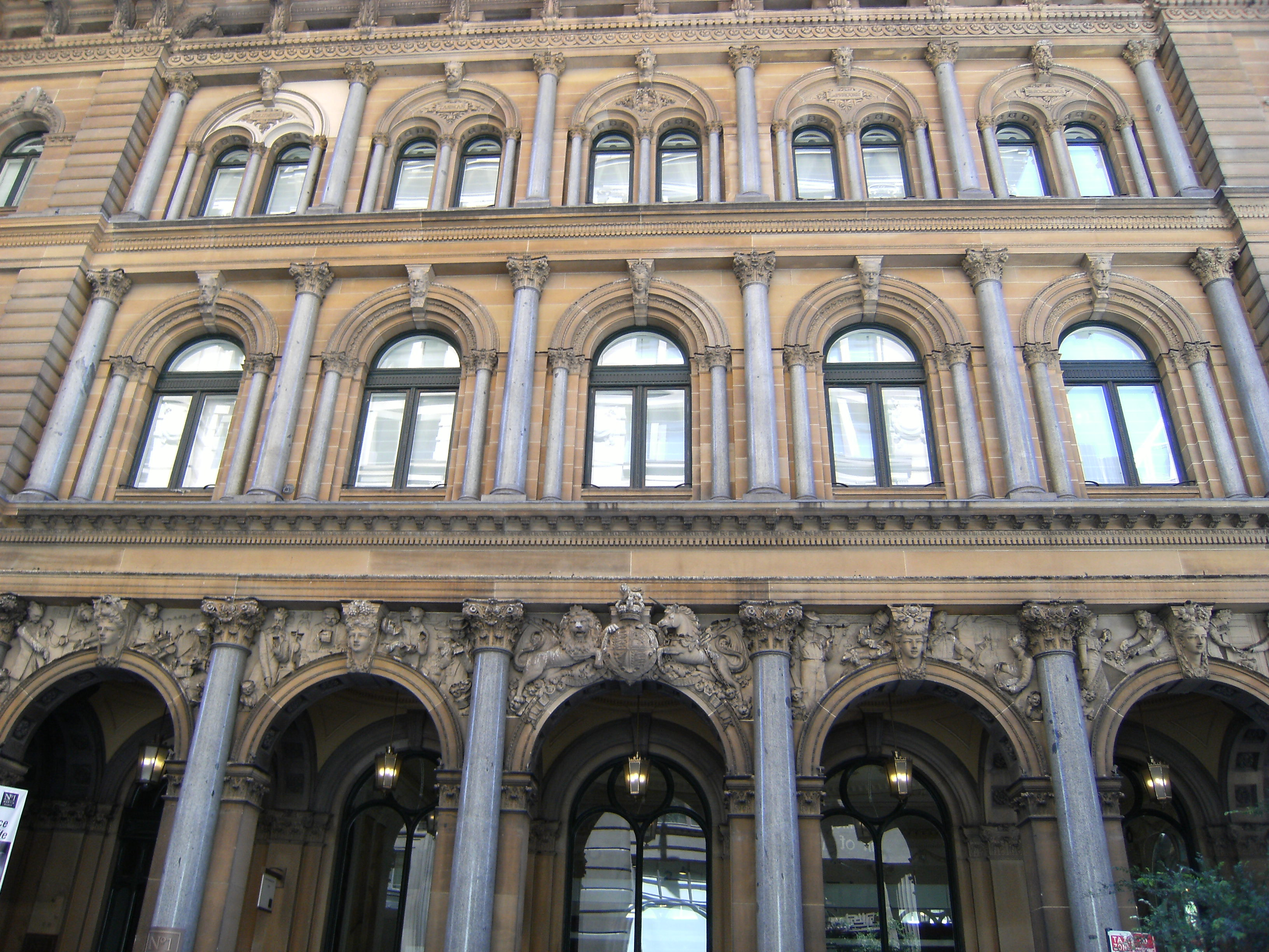 Facade section of the General Post Office Building at No. 1 Martin Place, Sydney. Tenants of No. 1 Martin Place include Macquarie Bank, though the Bank uses the highrise tower behind the historic building and not the General Post Office Building itself.